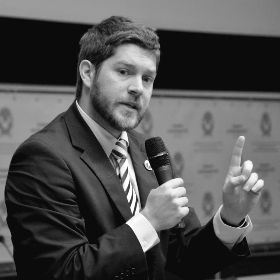 Sam Potolicchio